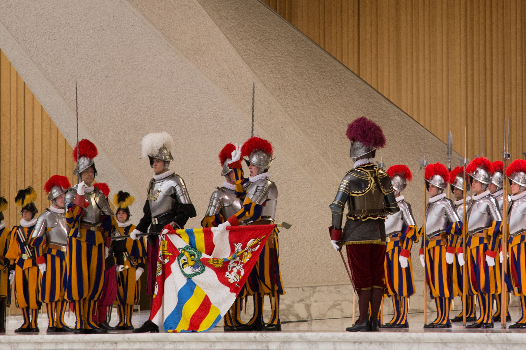 Swiss guard swearing-in ceremony at the Paul VI Audience Hall.